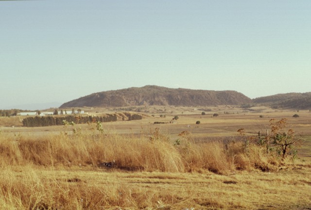 Cerro El Colli, a small rhyolitic lava dome that is one of the youngest post-caldera domes of the Sierra La Primavera volcanic complex, rises to the south above the eastern caldera floor. The dome has been dated at about 30,000 years and is the easternmost of several emplaced along an arc along the southern caldera margin. Eruption of the Southern Arc lavas began about 60,000 years ago and were accompanied by eruptions of airfall pumice and pyroclastic flows. Southern Arc lavas are generally younger to the east.